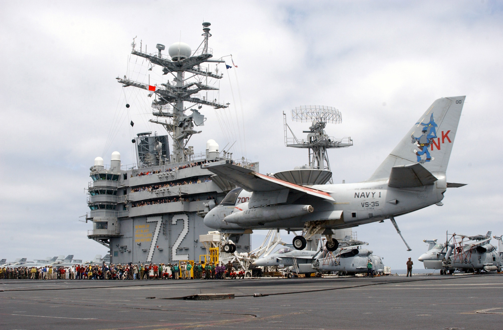 "Navy 1", a U.S. Navy Lockheed S-3B Viking (BuNo 159387) from sea control squadron VS-35 Blue Wolves lands aboard the aircraft carrer USS Abraham Lincoln (CVN-72) on 1 May 2003. The aircraft was carrying the U.S. president George W. Bush who was the first U.S. president land on an aircraft carrier in an airplane making an arrested landing. All other presidents (including Mr. Bush) had used a helicopter. The S-3B 159387 is today preserved at the U.S. Navy National Museum of Naval Aviation at Pensacola, Florida (USA).